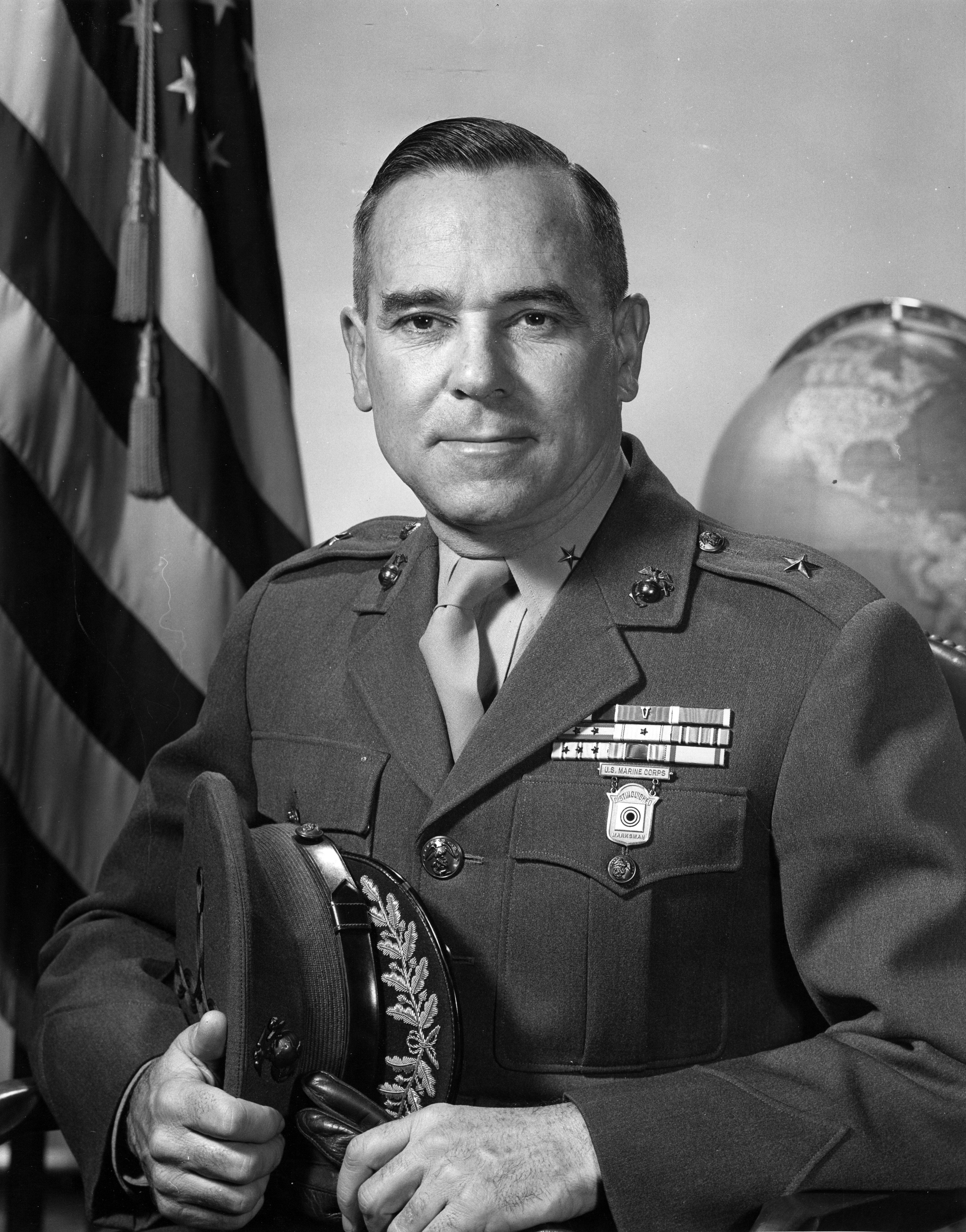 Lewis Cheatham Hudson (July 29, 1910 - July 24, 2001) was a highly decorated officer of the United States Marine Corps with the rank of Brigadier General. Hudson received Navy Cross, the United States military's second-highest decoration awarded for valor in combat, while leading 2nd Battalion, 25th Marines during Battle of Iwo Jima in February 1945. He later commanded Troop Training Unit, Atlantic Fleet or 3rd Marine Division and retired in 1961.